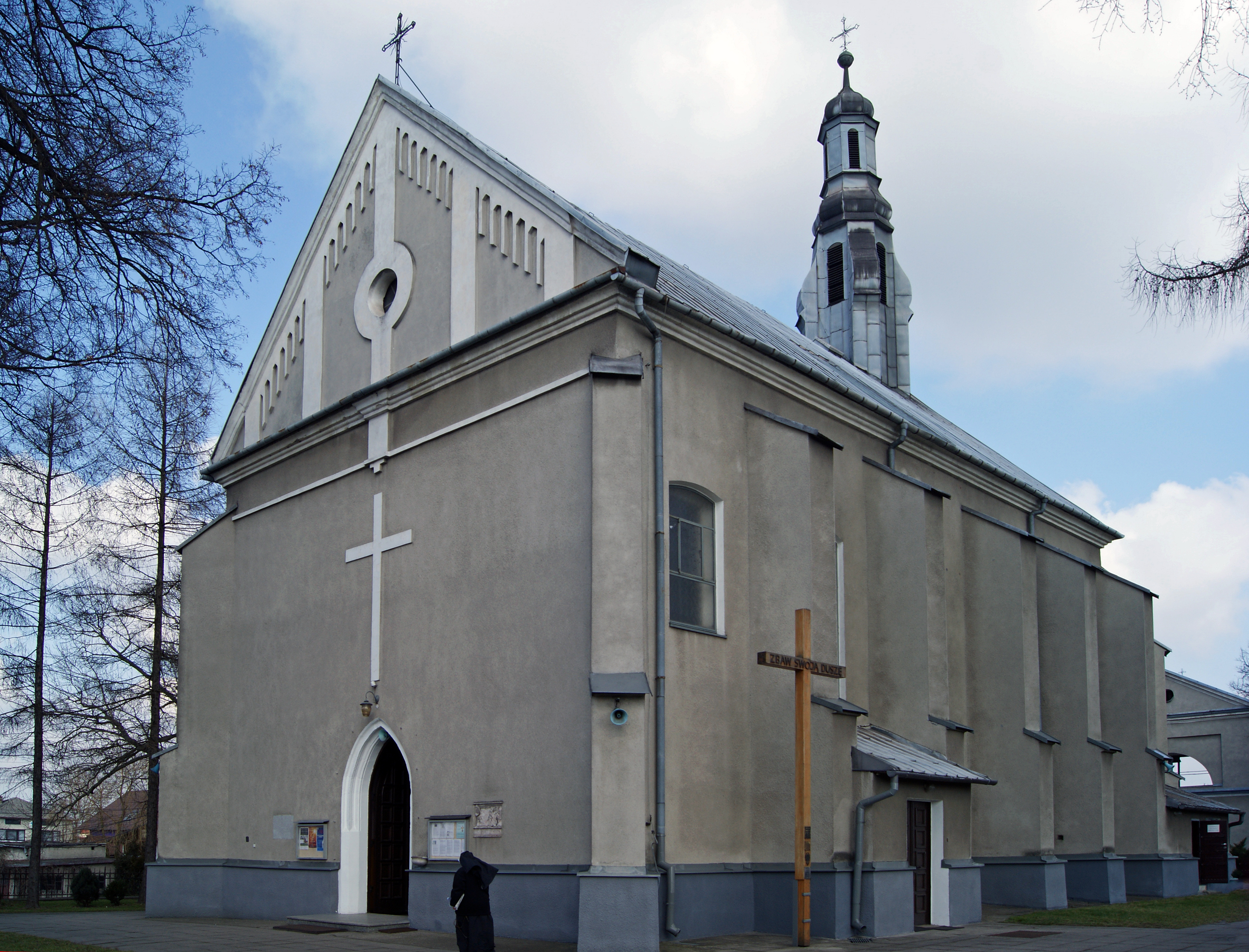 Church of the Nativity of the Theotokos, Igołomia village, Kraków County, Lesser Poland Voivodeship, Poland